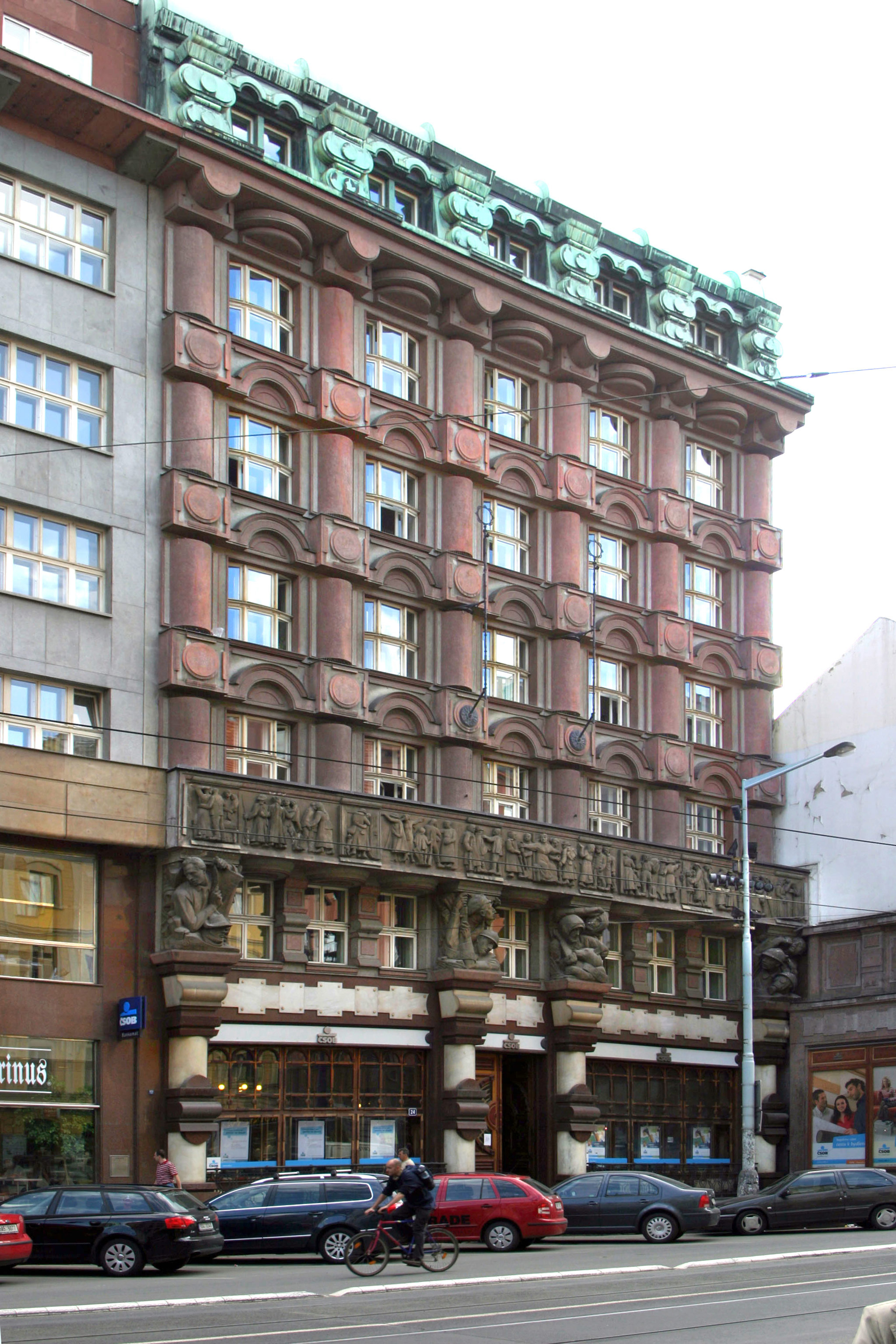 Building of Legiobanka in Prague by Josef Gočár Author: Petr Vilgus